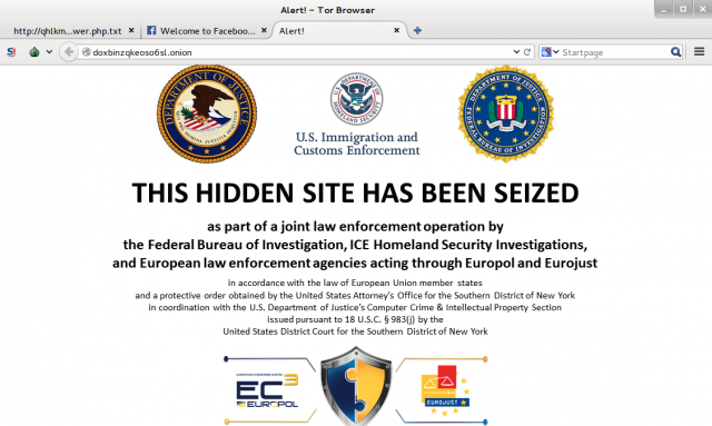 dnngnxfnxbdnbdnzdn